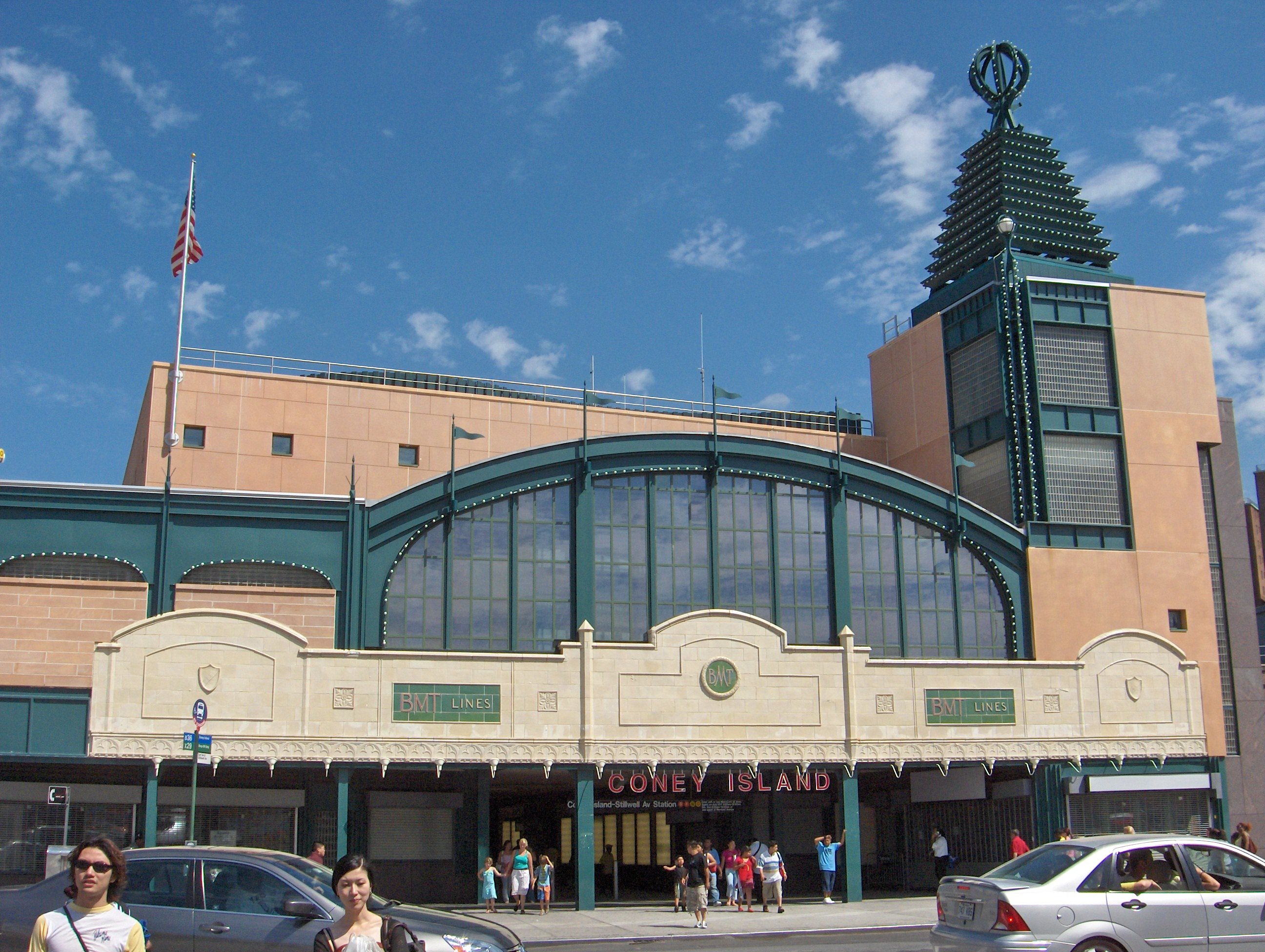 Main entrance of the Coney Island–Stillwell Avenue station on Coney Island. This station has been built in 1919 as a terminal of four Dual-Contract lines and was totally rebuilt between 2001 and 2005. Although this facade is completely different from the original construction, it features two essential historical facts: Until 1940, this station exclusively saw BMT service, the logo of which company is still shown above the entrance, and the stylized tower and the lighting along the windows remind of the long-gone Coney Island amusement resort, which once gave reason to erect this massive complex.